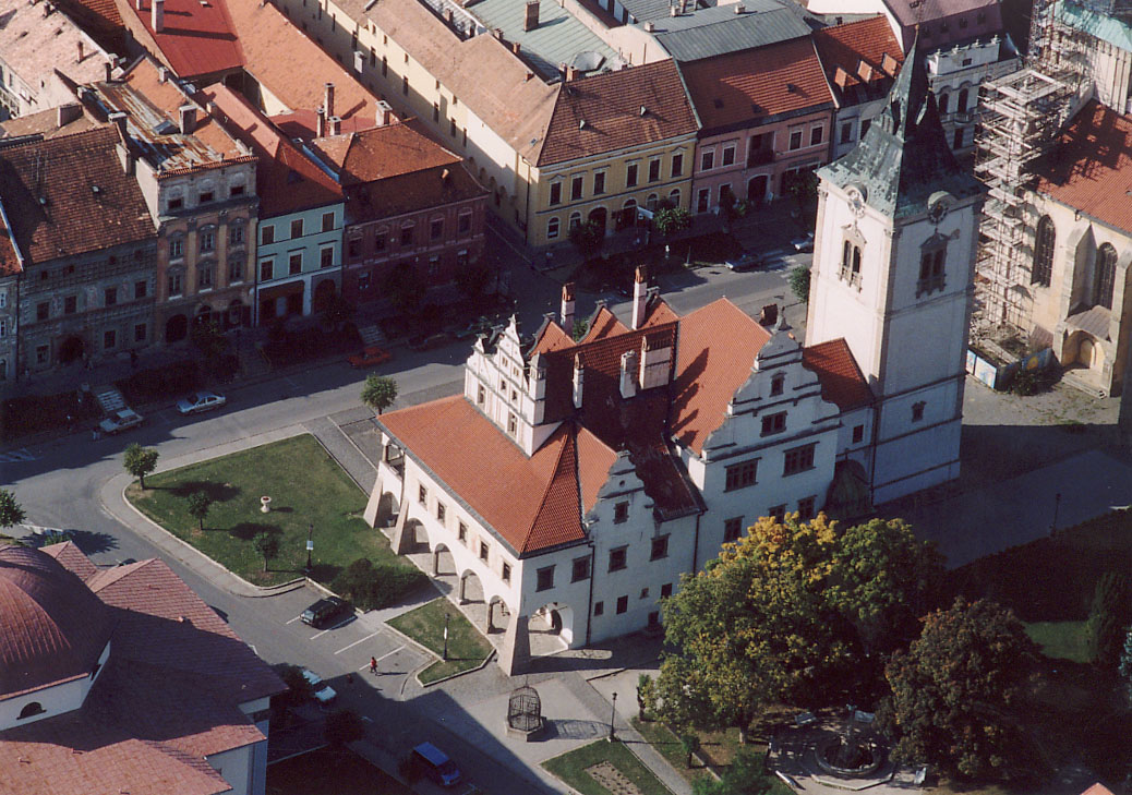 Town guild hall - Levoča - Slovakia - Europe